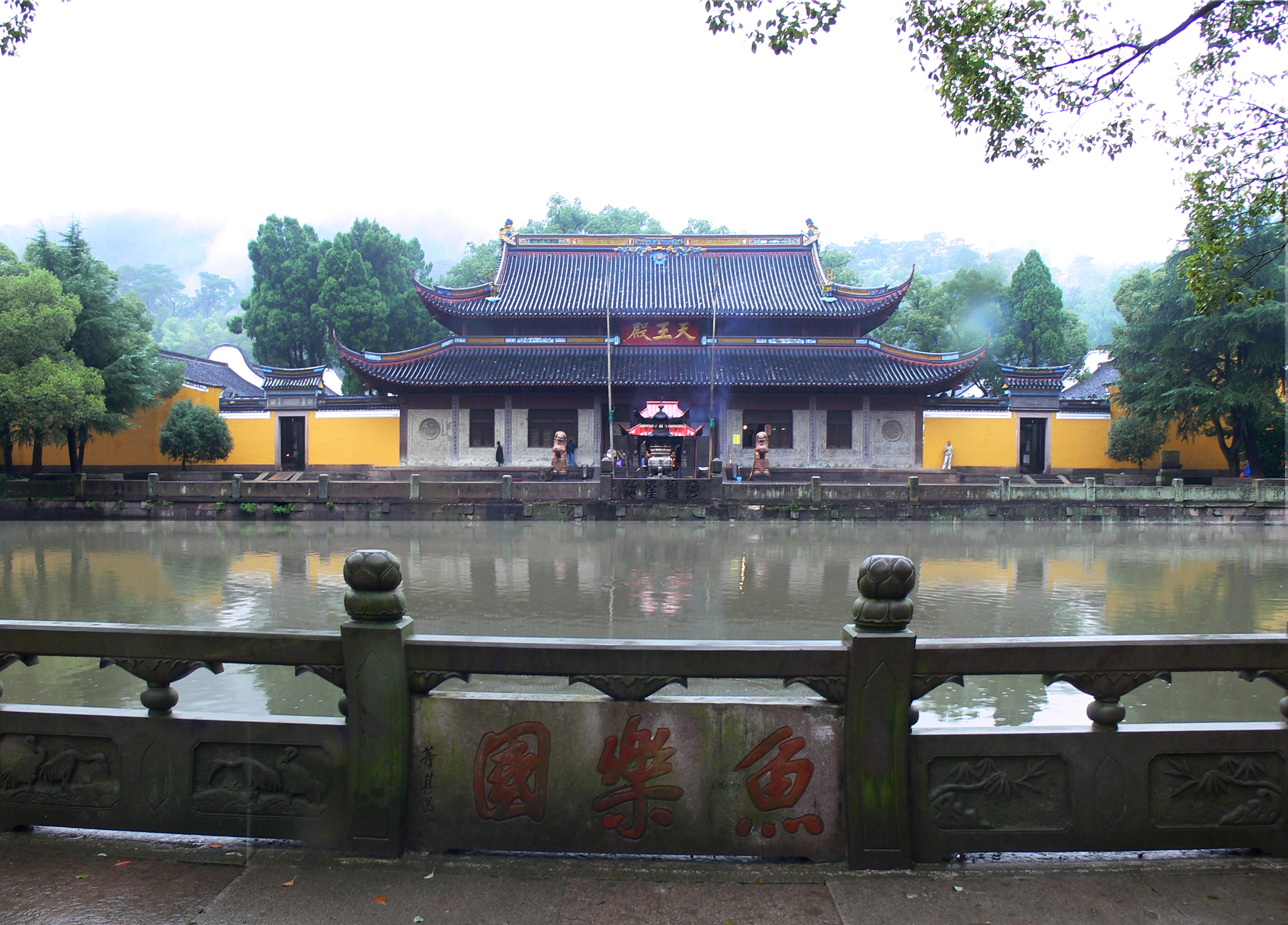 Ningbo Ashoka Temple built in 282 中文（中国大陆）: 宁波市阿育王寺